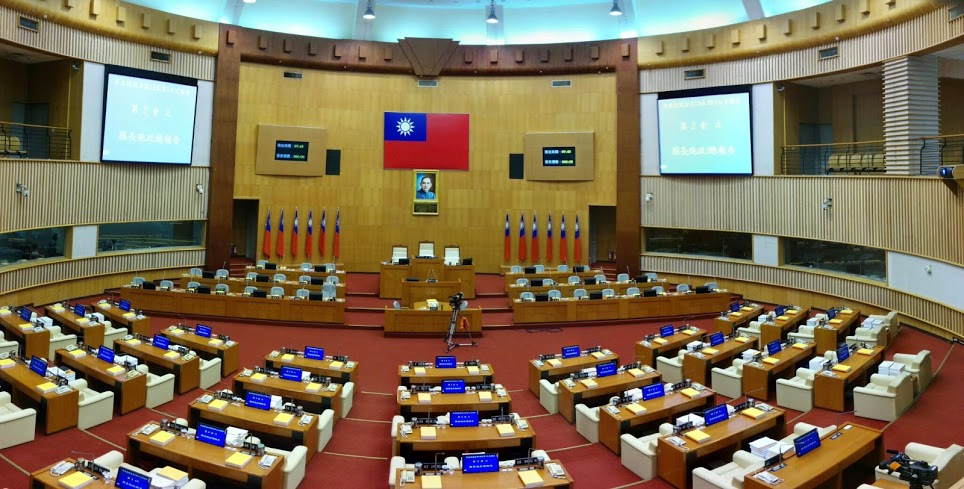 the capiton of pingtung county council